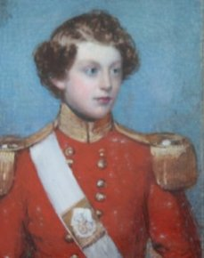 William Plumer Gaskell, ensign in the 94th Regiment 1854